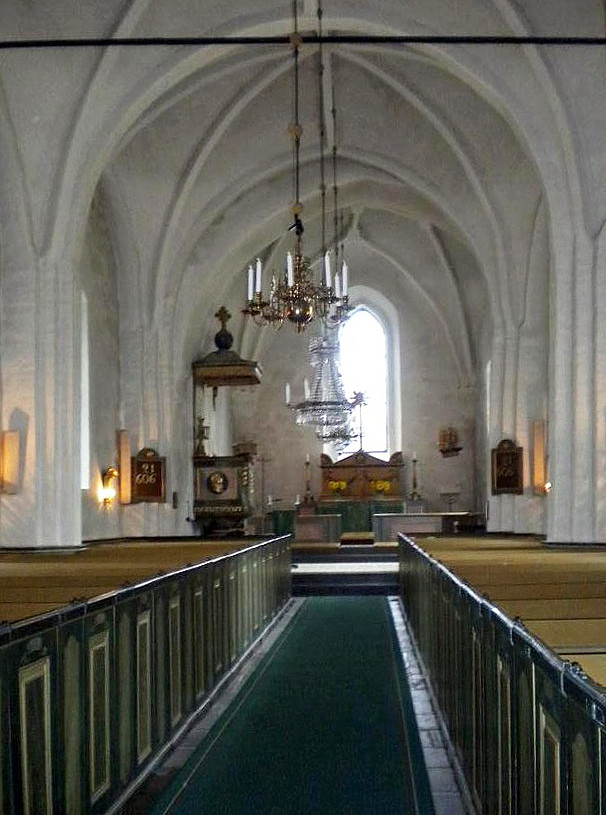 Adelsö Church interior, as released by image creator RistessonPlace: Lake Mälar island of Adelsö (Nobilty Island) in Ekerö, Sweden